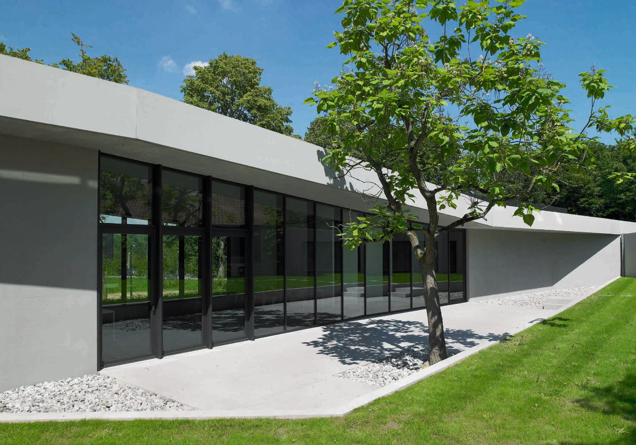 The main building of Intercommunale Leiedal, Kortrijk